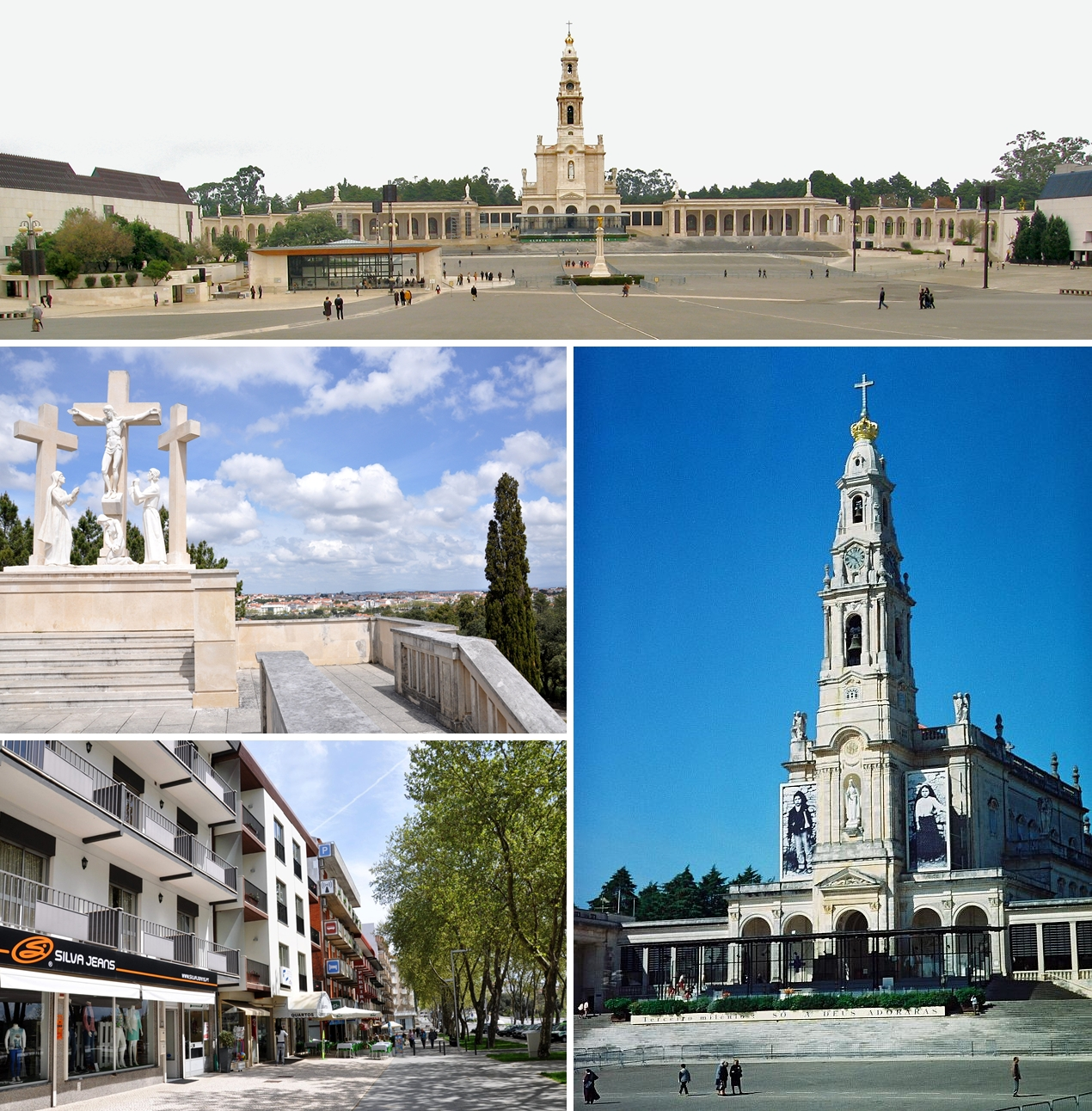 Fátima, Portugal – City of Peace